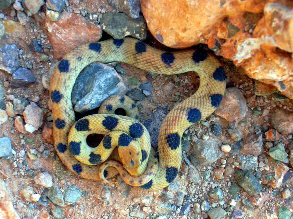 Beetz's Tiger Snake (Telescopus beetzii), also known as Namib Tiger Snake, found in Hardap, Namib desert, Namibia.